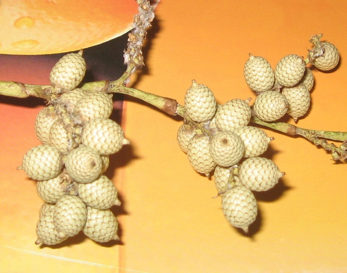 Fruit